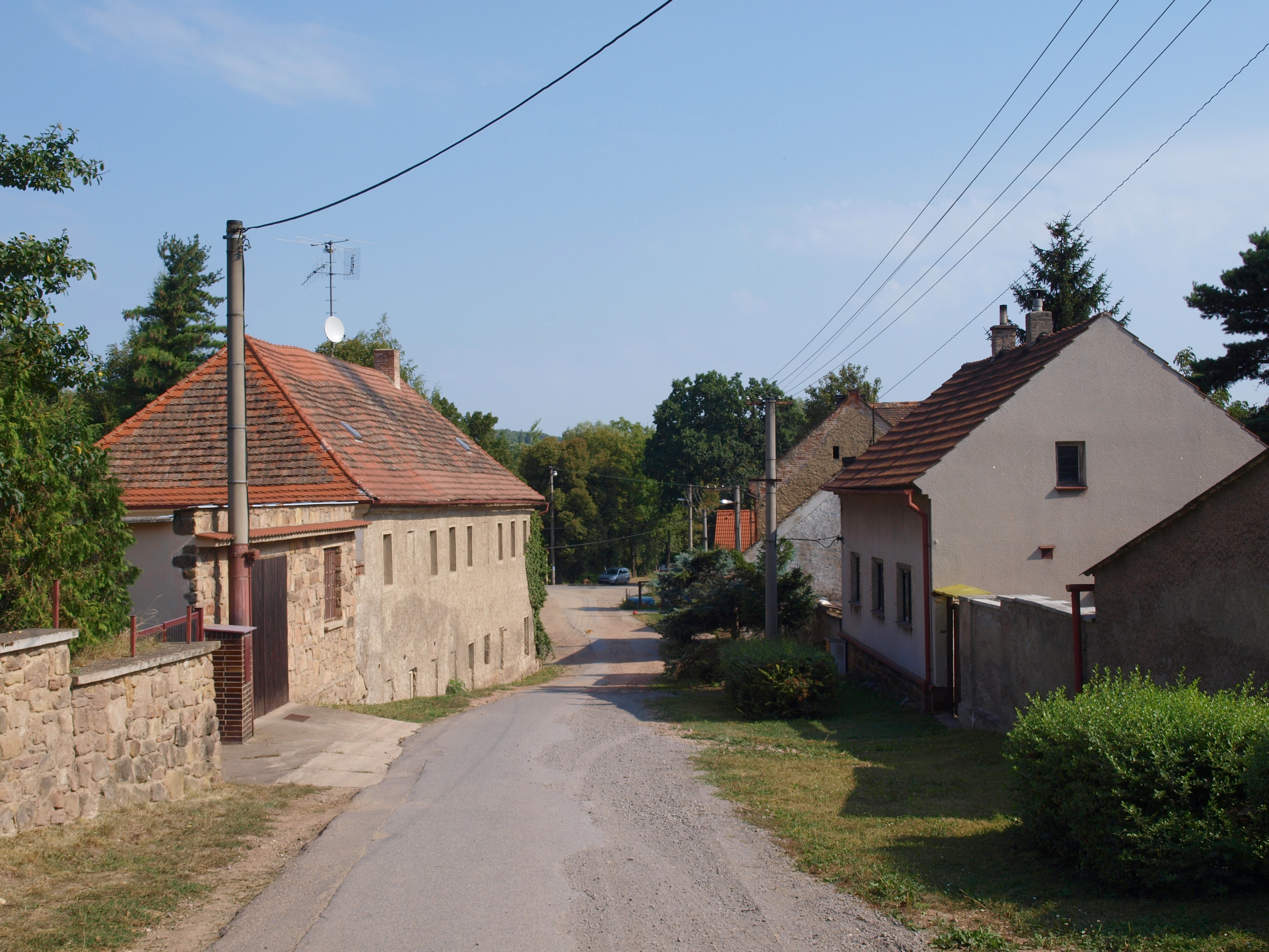 Way from train station, Podlešín, Kladno District, Czech Republic